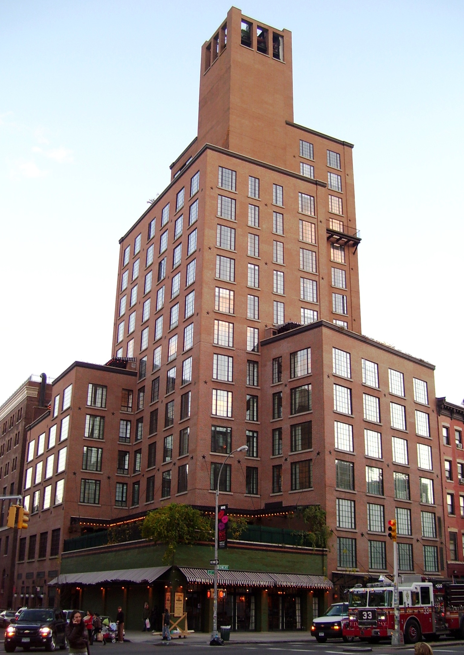 The Bowery Hotel on the Bowery between East 2nd and 3rd Streets, in lower Manhattan, New York City, opened in 2007.